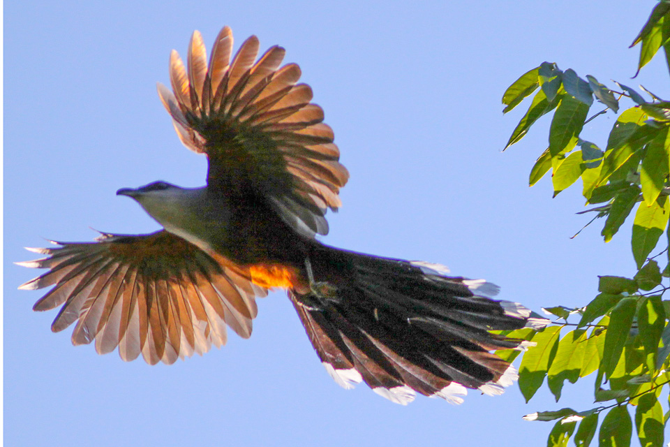 Sutton Estate,Marshall's Pen